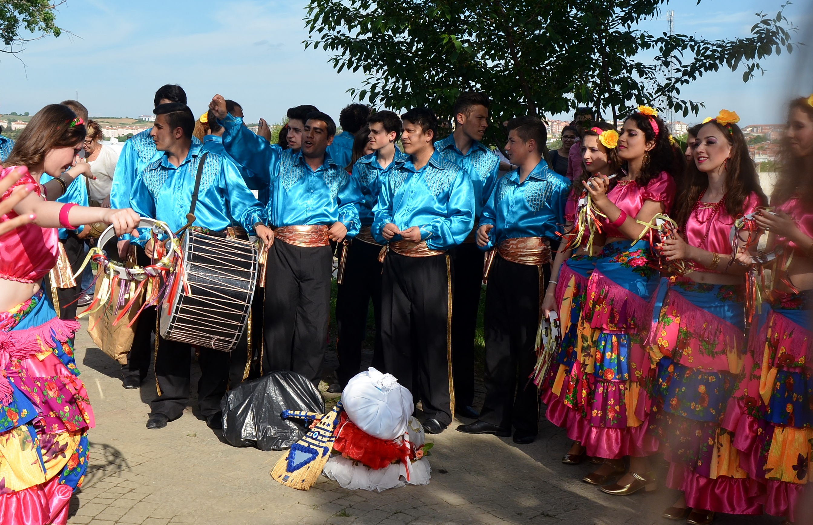 Kakava celebration at Edirne, Turkey in 2015